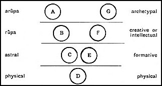 The illustration A planetary chain.